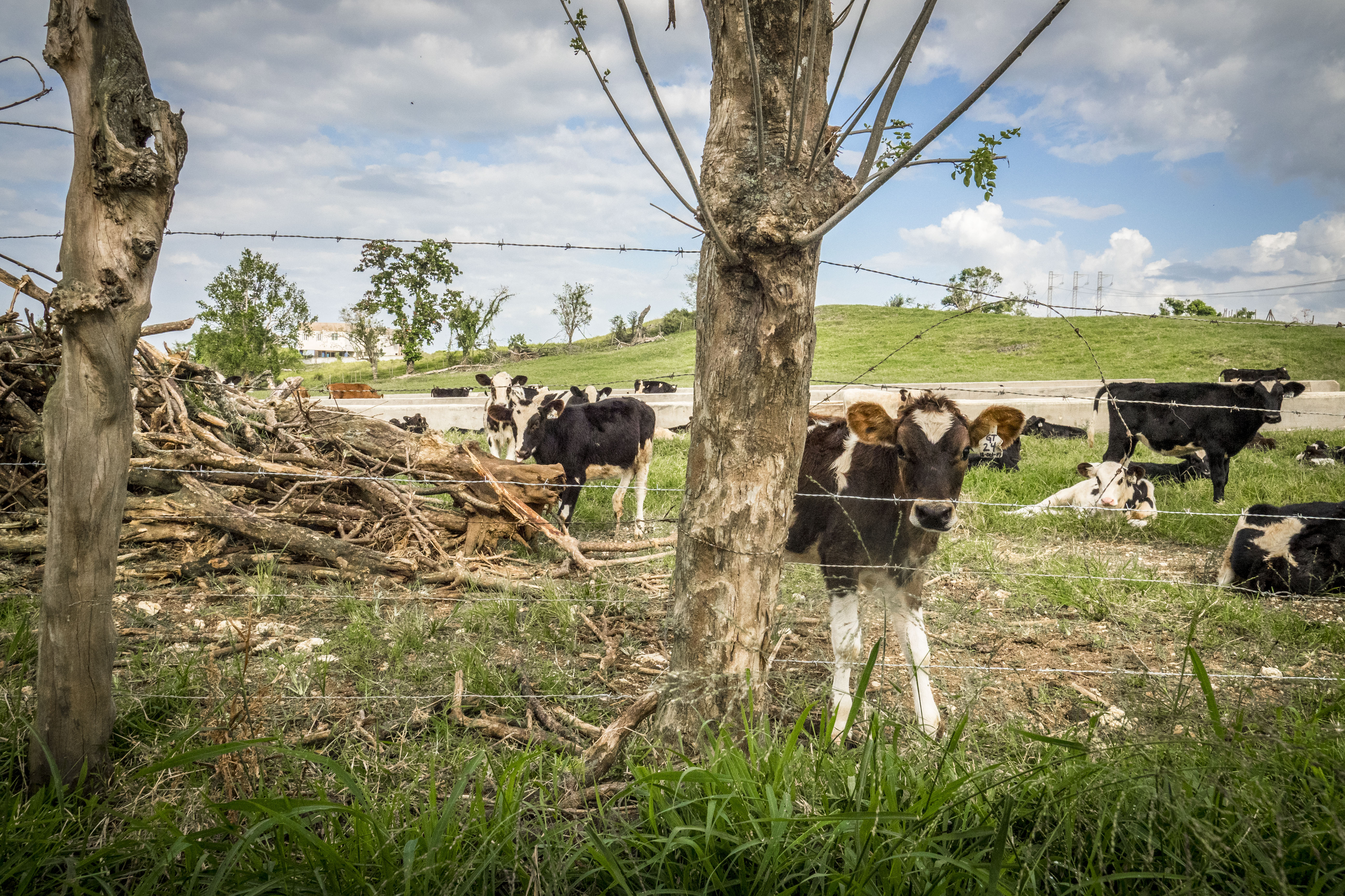 Vaqueria Ceiba Del Mar, in Arecibo, Puerto Rico, is one of the largest dairy producers on the island and was a recipients of the new Dairy Assistance Program due to Hurricane Maria. The farm is also eligible for the Emergency Conservation Program. Here, a "life pole" provides support to the fences, while providing shade to the livestock as the trees grow. USDA Photo by Preston Keres